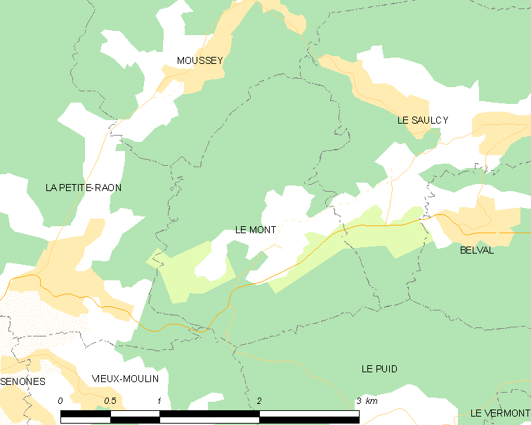 Map of French municipality Le Mont